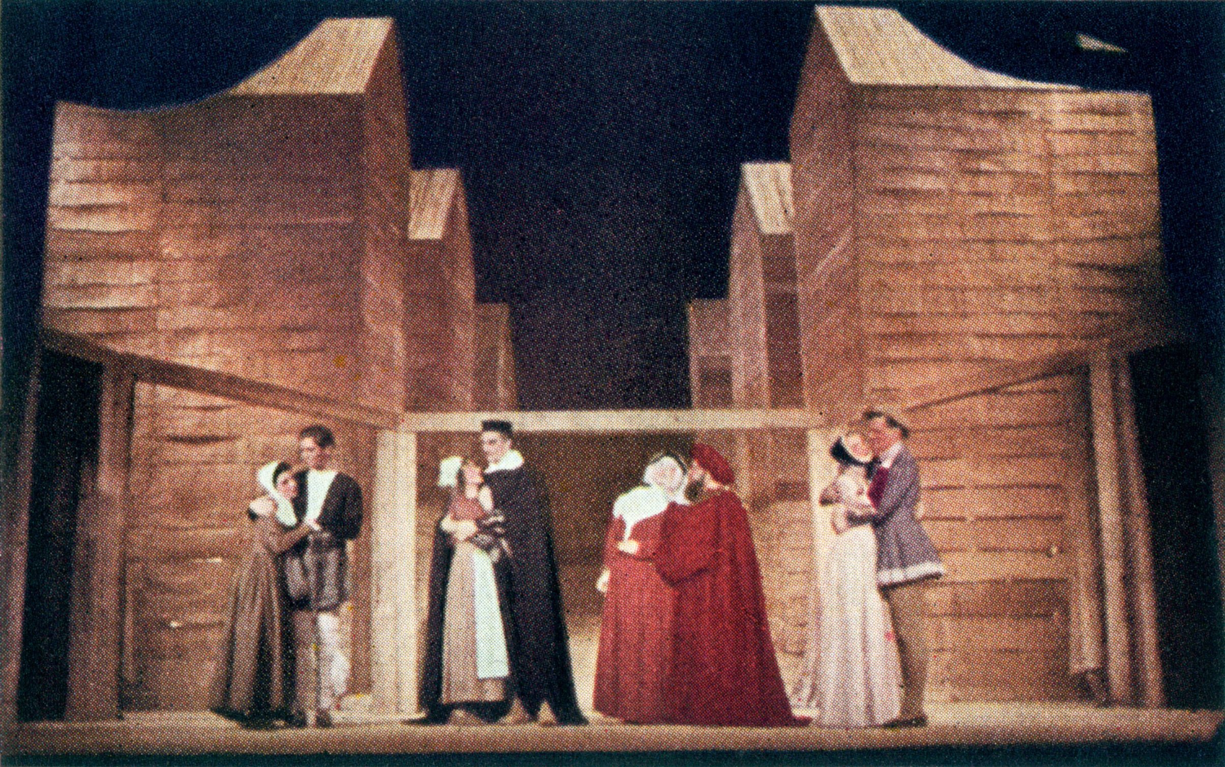 Photograph of the cast on stage in the Mercury Theatre stage production of The Shoemaker's Holiday, part of a feature story titled "The Man from Mercury" (pp. 98–102)